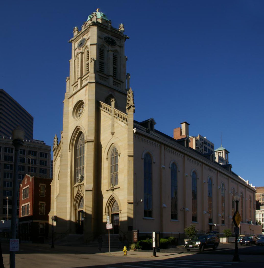 I took this photograph of St. Francis Xavier Church located at 607 Sycamore Street, Cincinnati, Ohio on Sunday, June 10, 2007 with a Pentax K100D Digital SLR camera. MamaGeek (talk/contrib) 00:31, 14 June 2007 (UTC)